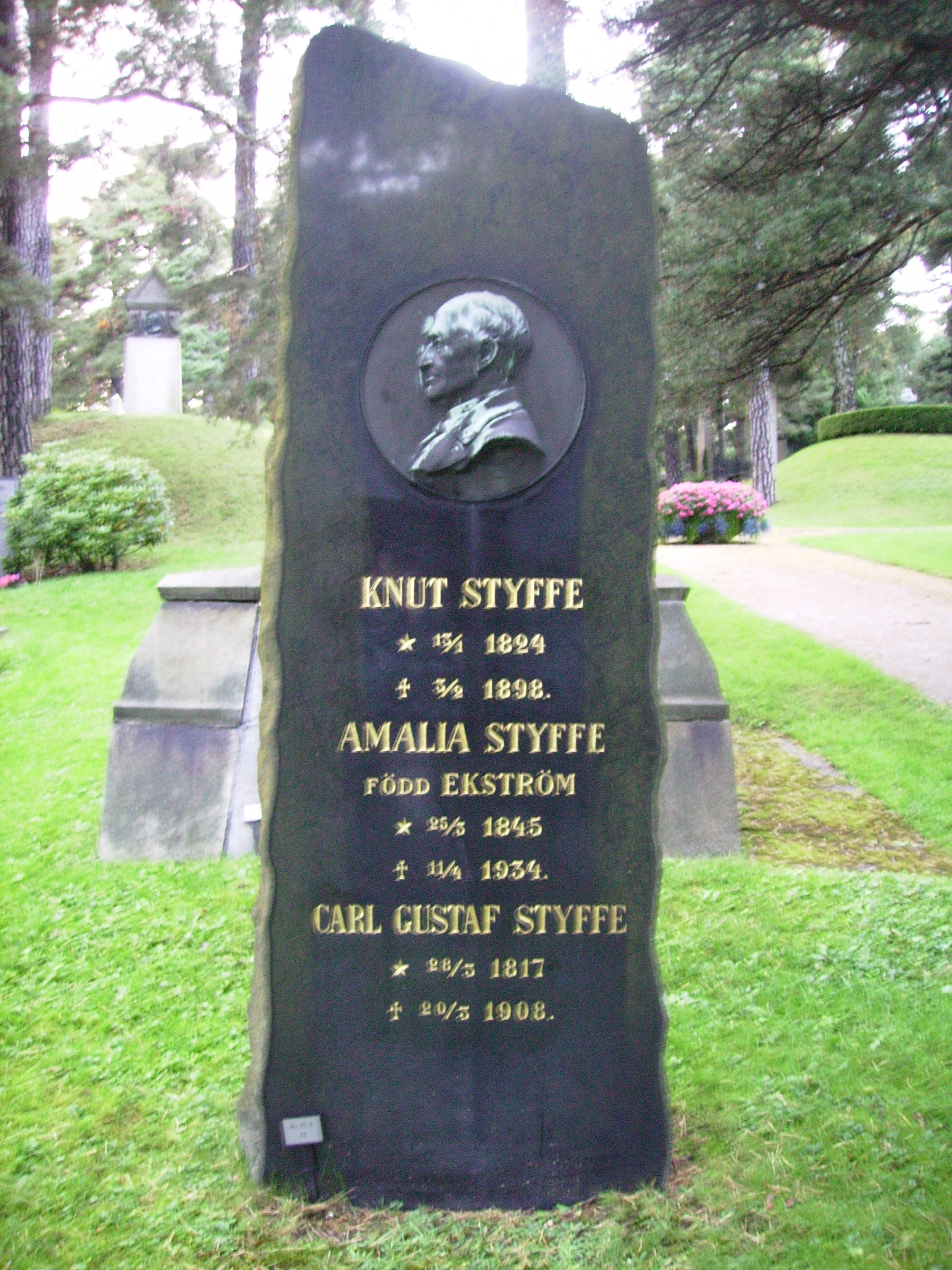 Picture of Knut Styffe's grave at Norra begravningsplatsen in Stockholm